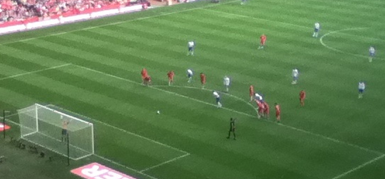 Image of Frank Lampard about to take a penalty against Wales